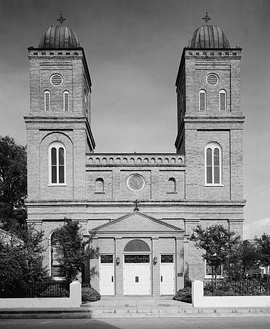 Church of the Immaculate Conception, 145 Church Street, Natchitoches (Natchitoches Parish, Louisiana) (cropped)